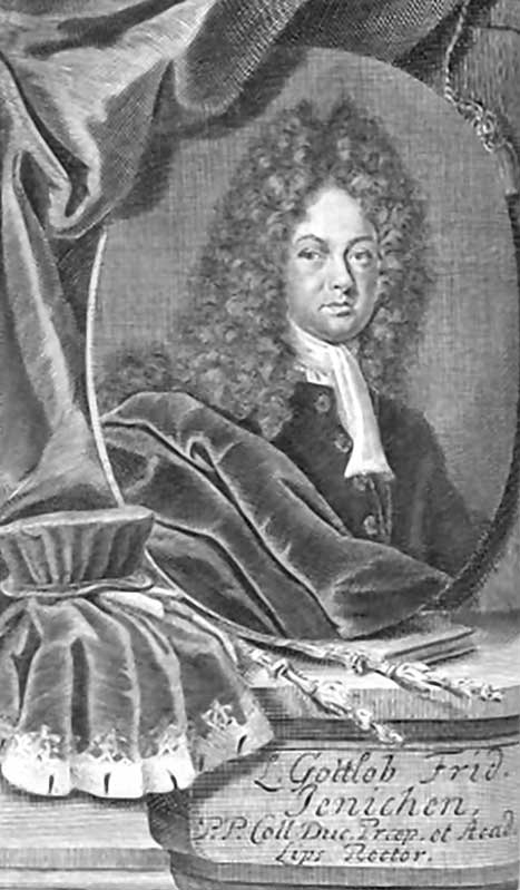 Gottlob Friedrich Jenichen (1680-1735) Ethnologist, Historian and Protestant theologian from Germany